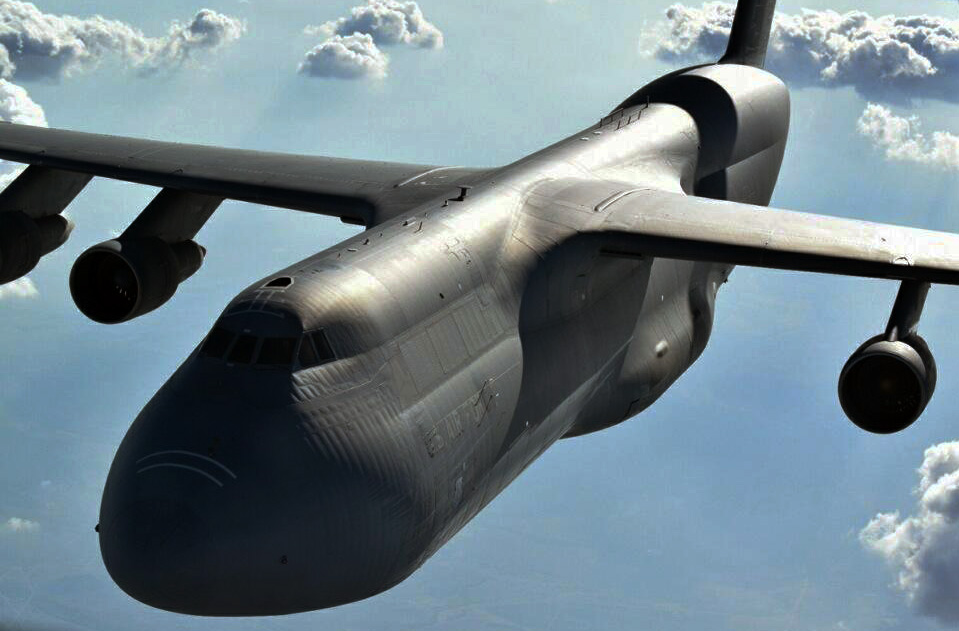 A C-5 Galaxy flies behind a KC-135 Stratotanker from McConnell Air Force Base, Kan., during an air refueling training exercise, Aug. 5, 2014. The C-5 is assigned to the Air Force Reserve 433rd Airlift Wing, Joint Base San Antonio, Texas. The KC-135 was operated by an aircrew made up of reservists from the 931st Air Refueling Group at McConnell. The 931 ARG regularly supports air refueling training for new C-5 pilots who are attending training at the Formal Training Unit (FTU) at Joint Base San Antonio. (U.S. Air Force photo by Senior Master Sgt. Brad Beyer/Released)